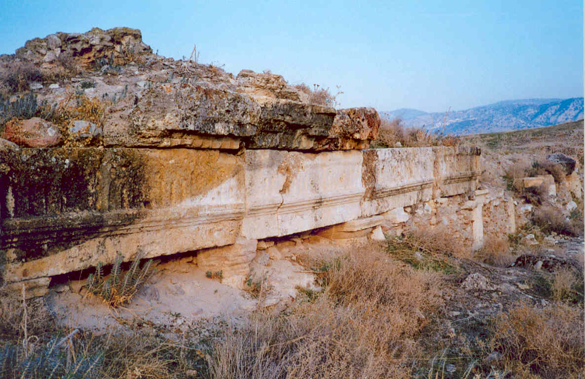 Ancient structures in Tripolis.